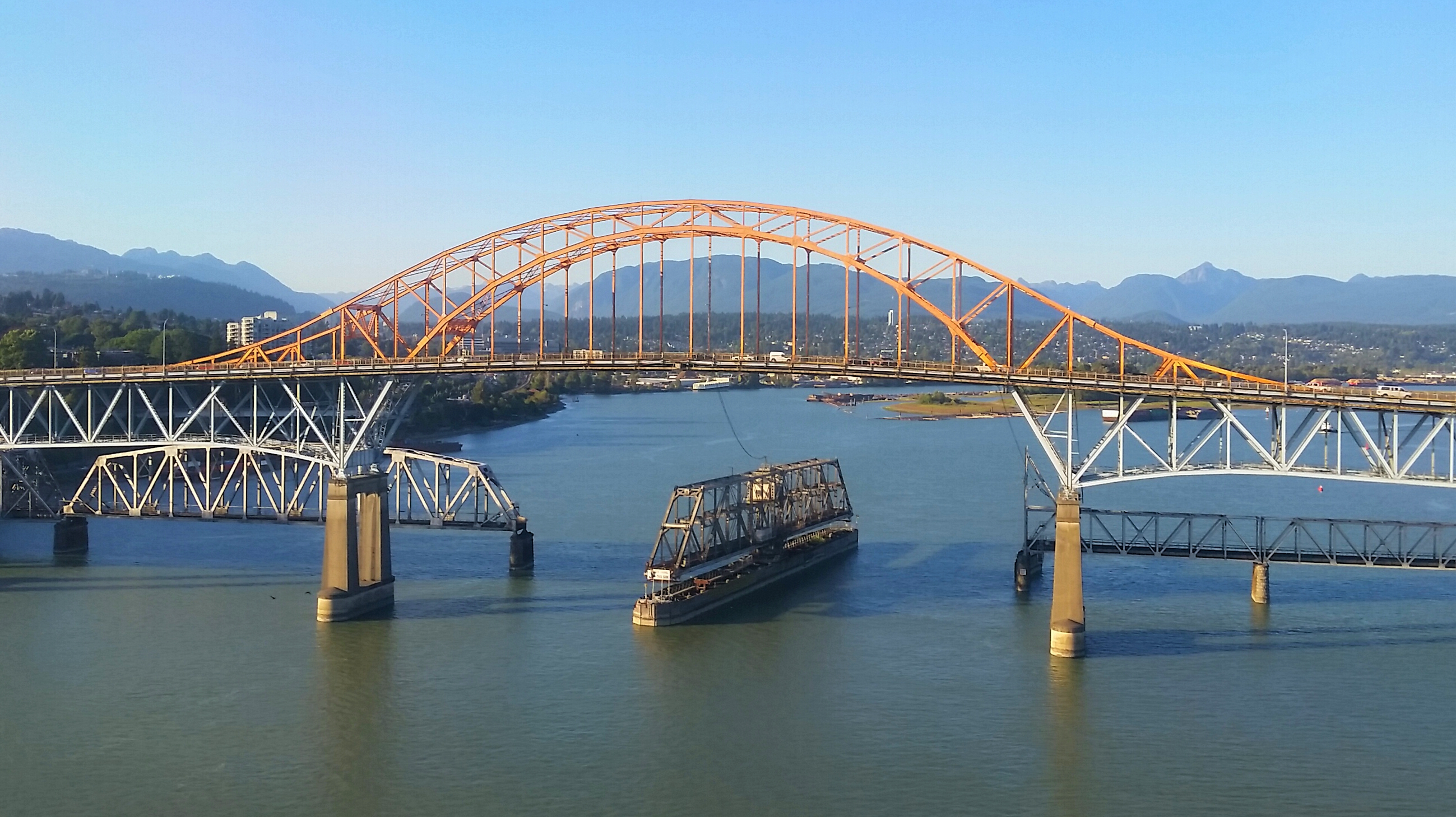 The Pattullo and New Westminster Bridges as viewed from the Skybridge.